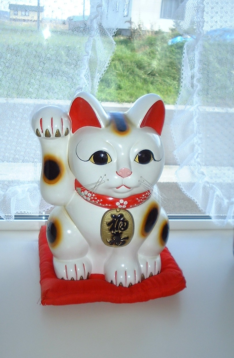 Maneki-neko in Hokkaido, Japan